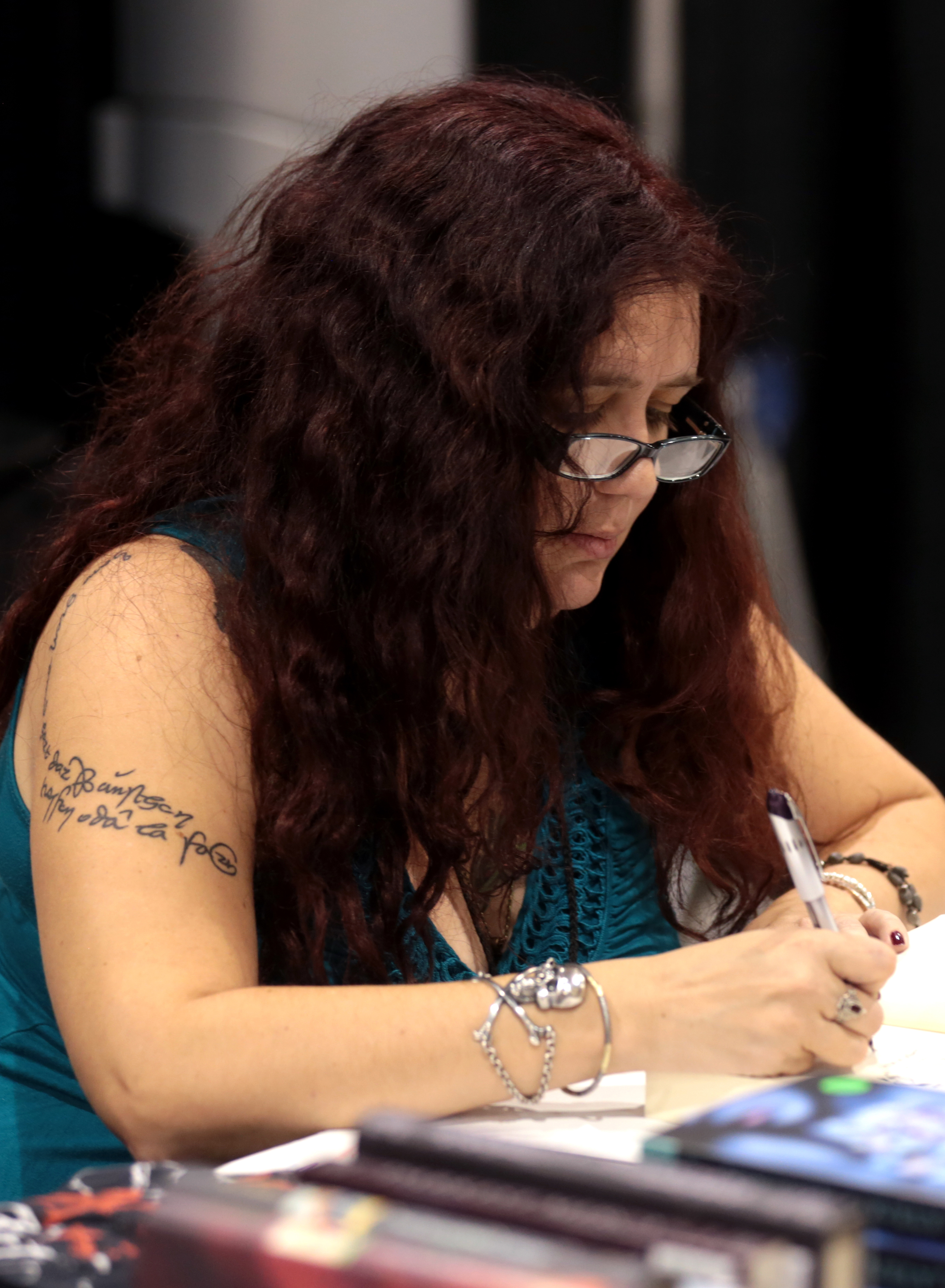 Melissa Marr speaking at the 2018 Phoenix Comic Fest in Phoenix, Arizona.